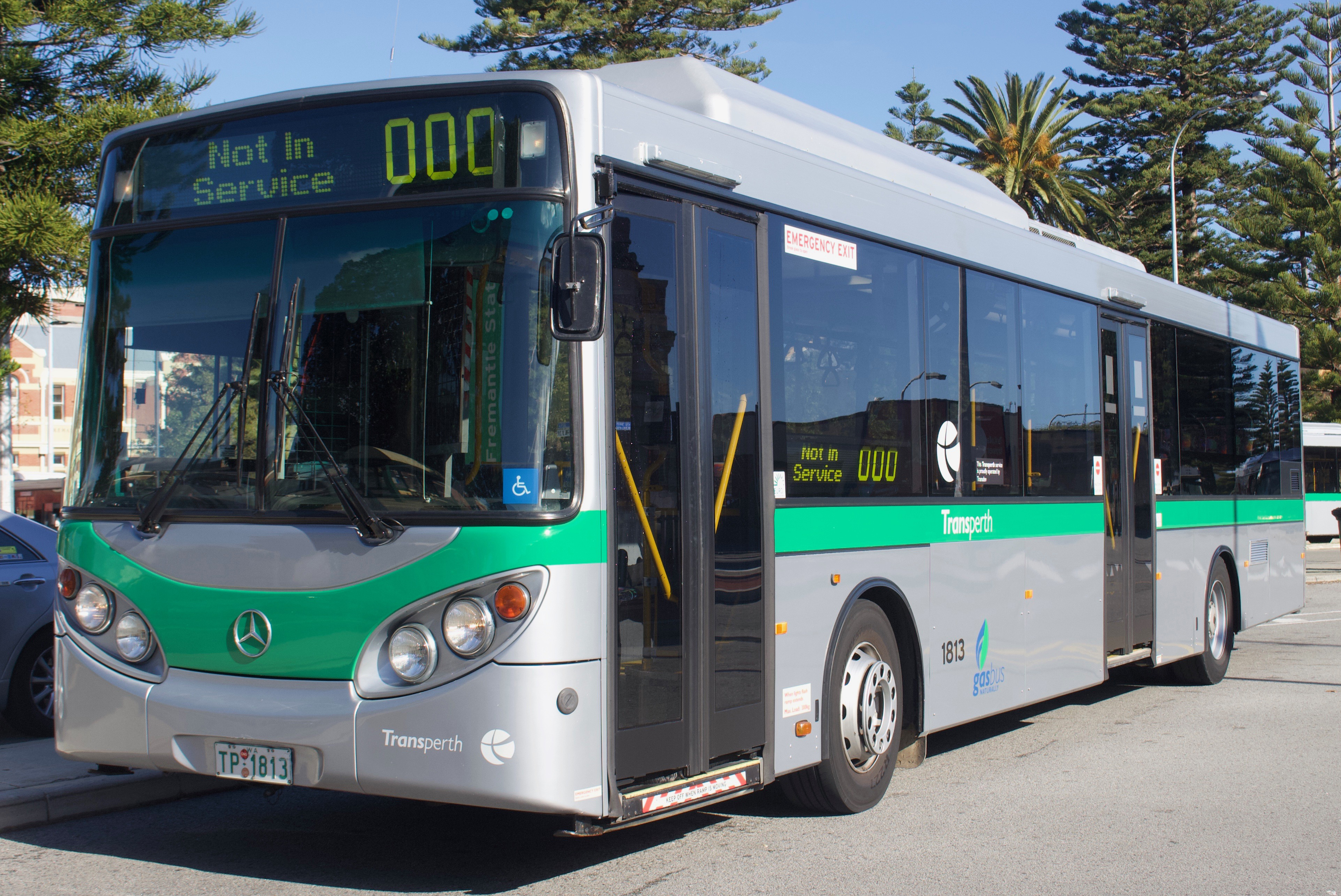 Transperth Volgren CR225L bodied Mercedes-Benz O 405 NH CNG not in service. Very common in Fremantle, but are being slowly withdrawn :))